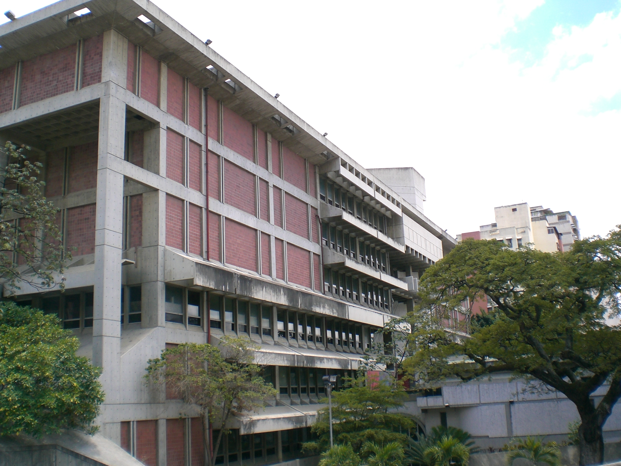 National Library of Venezuela building, Caracas.